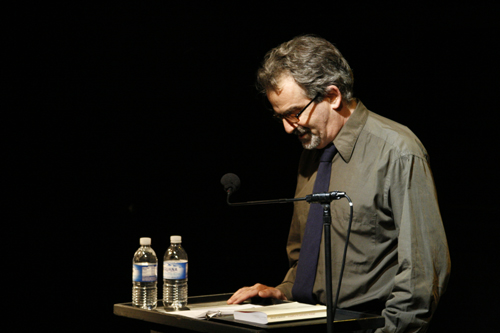 Aram Saroyan speaking at Beyond Baroque Literary Arts Center, Los Angeles.